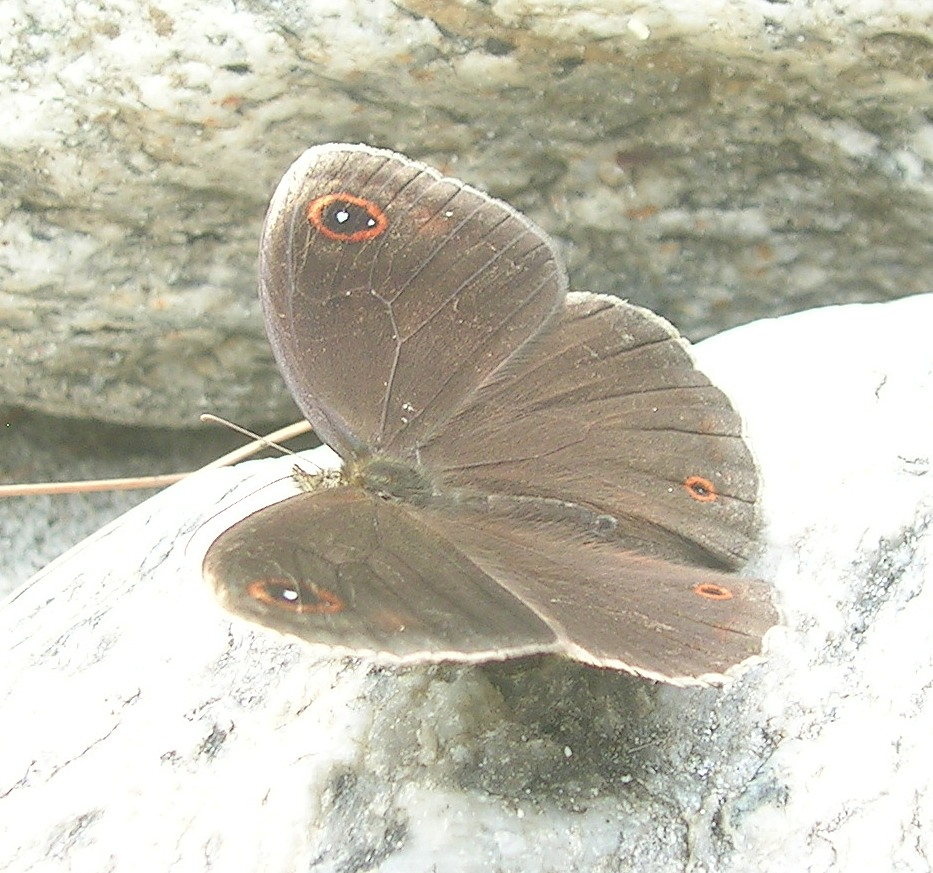 Callerebia scanda, determined by L. Shyamal using Lepidoptera Indica, Satyrinae, Lepidoptera, from Munsiyari, the Central Himalayas, India